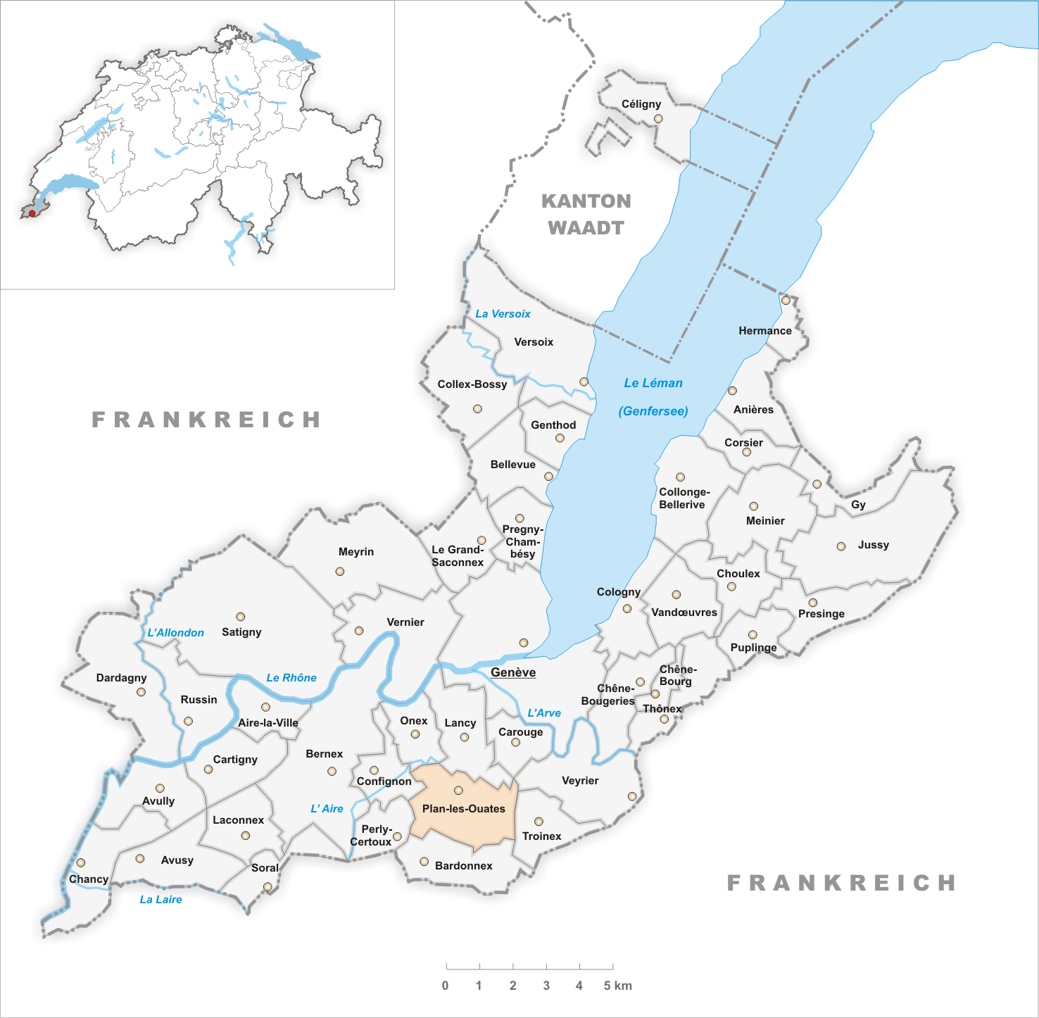 Municipality Plan-les-Ouates